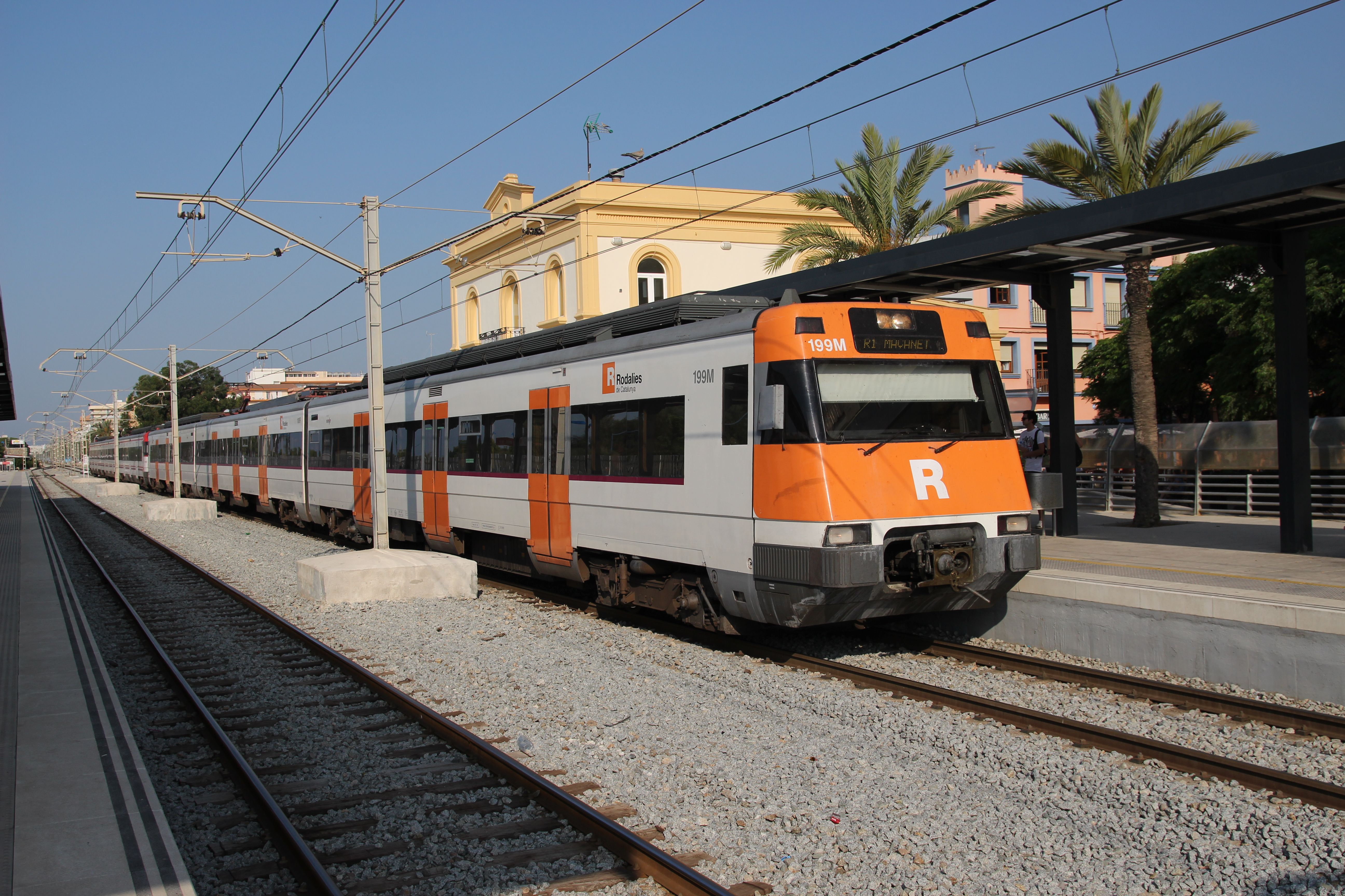 Spain regional train station Malgrat de Mar.